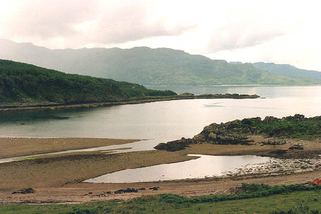 View of "Camusfearna" Bay.